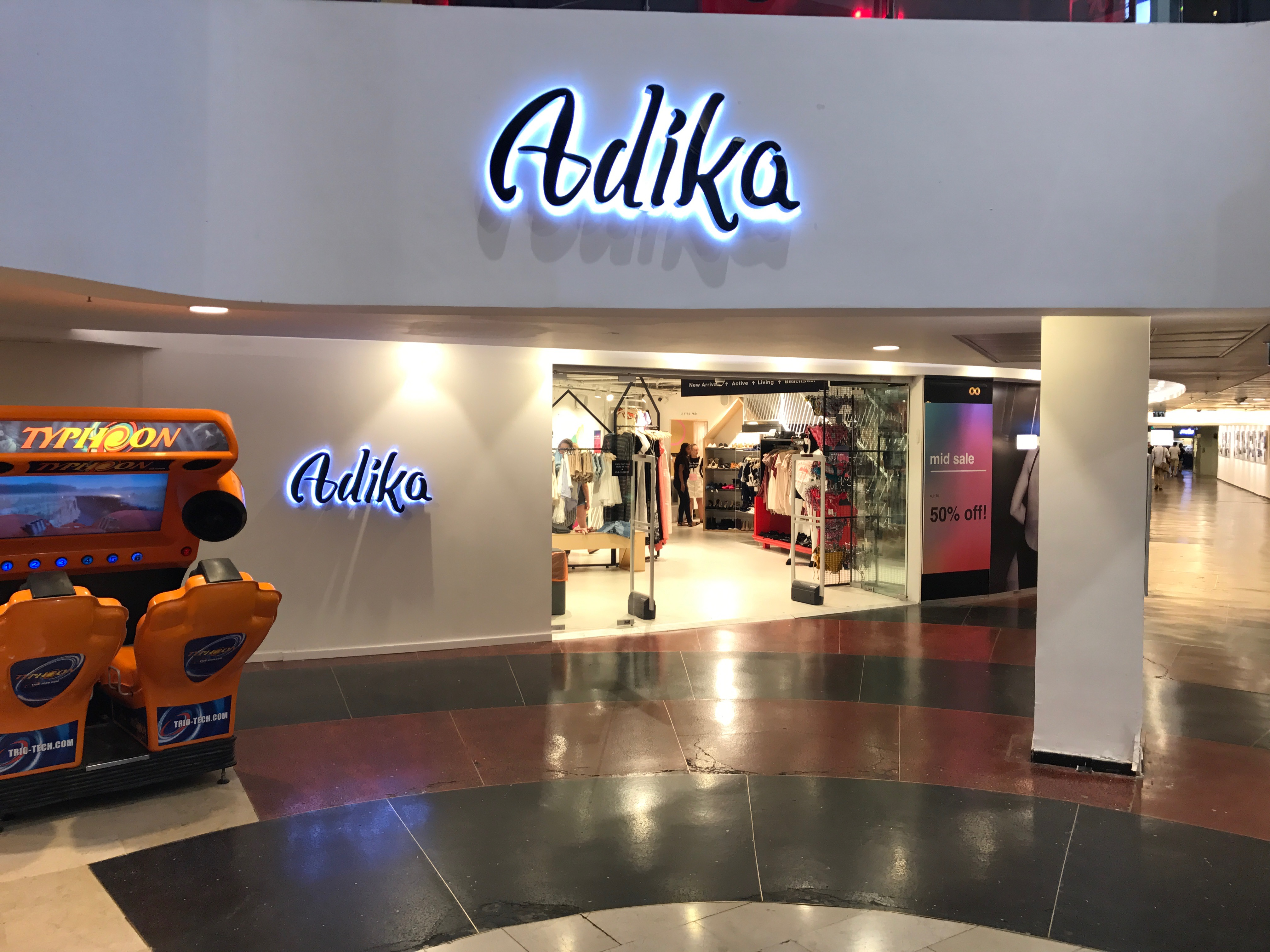 The front of Adika store at Dizengoff Center